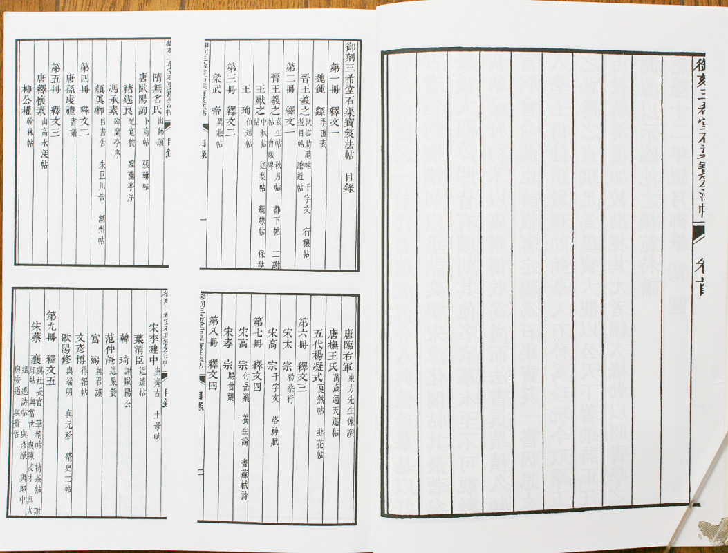 Deciphering Model Calligraphy of the Hall of the Three Rarities a collection of masterpieces from the Jin to the Ming dynasties, were set in the wall of the Yuegu lou (Inspecting-Antiquity Hall) in 1747.3